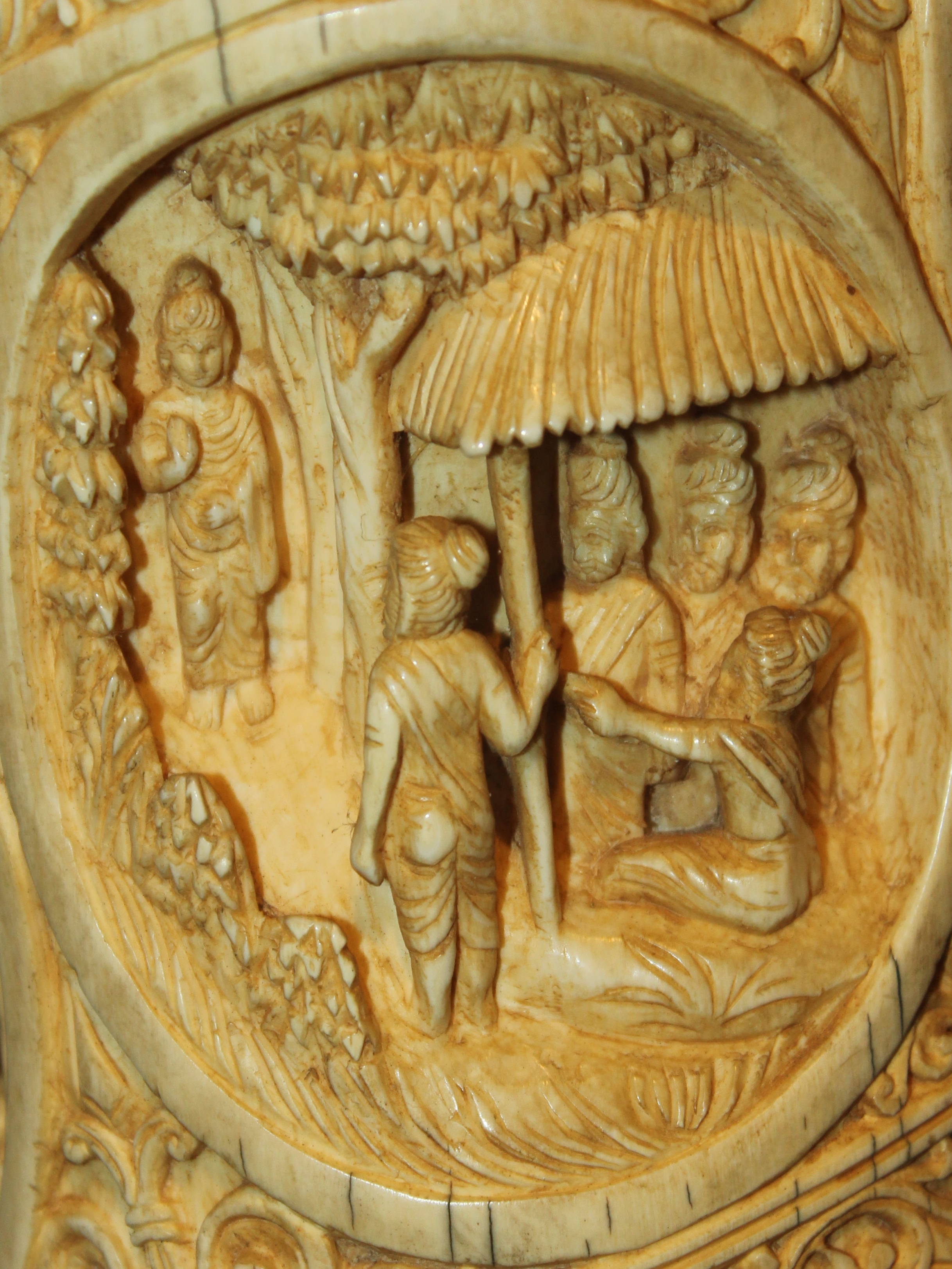 Roundel 26: Buddha visits his five old friends, who became the first disciples